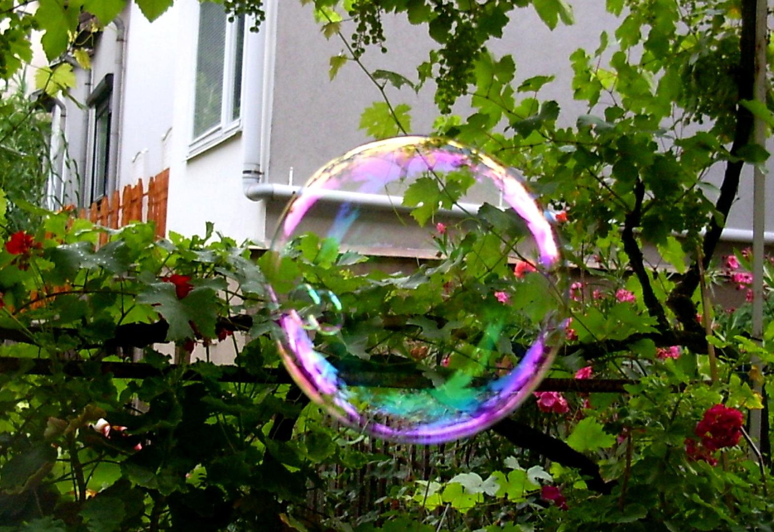 Large Soap Bubble with grapevines in background Author: Dr. Báder Imre